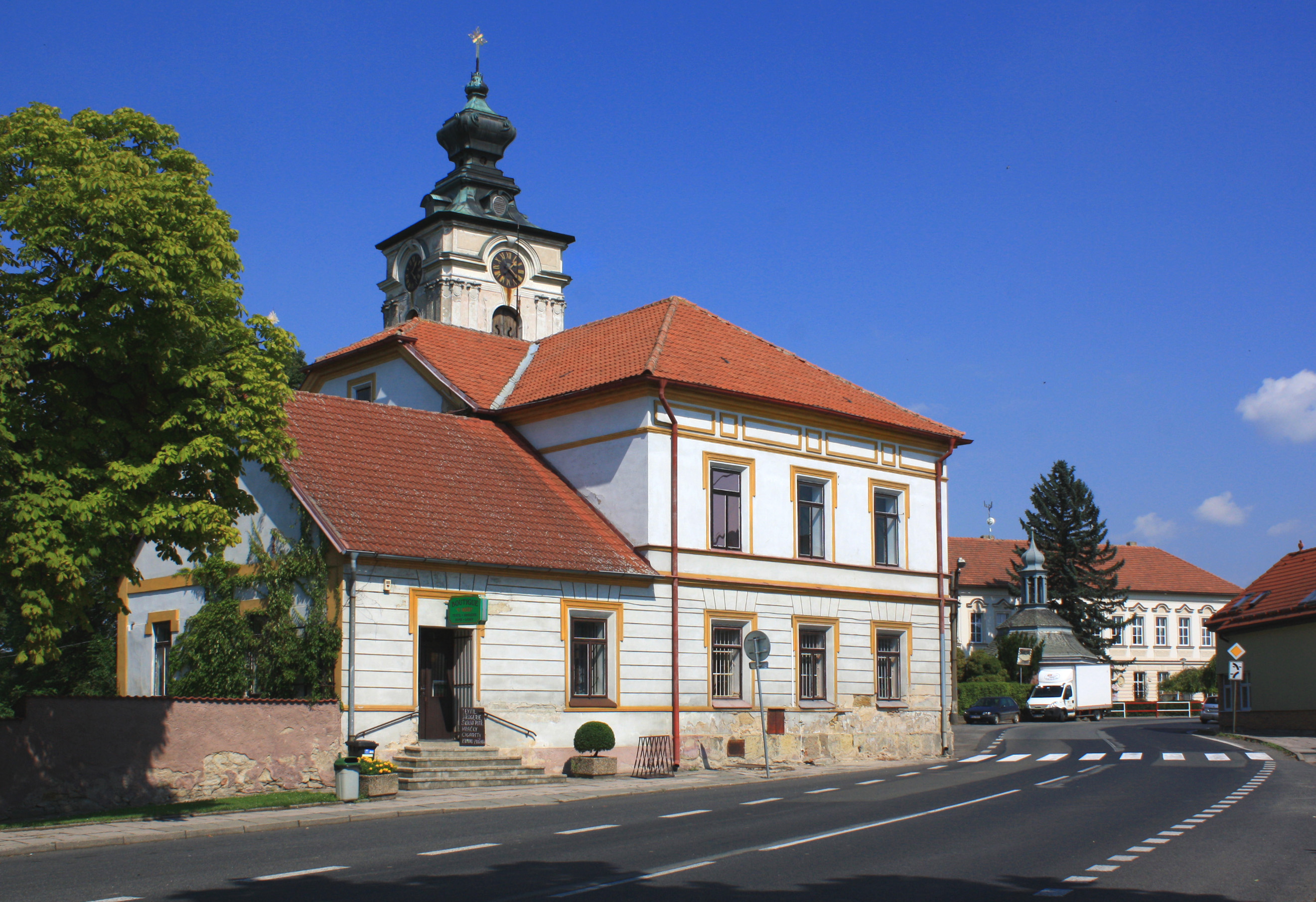 Old town hall in Bezno, Czech Republic